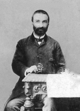 Muallim Naci (Scanned image)